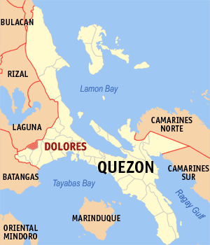 Map of Quezon showing the location of Dolores